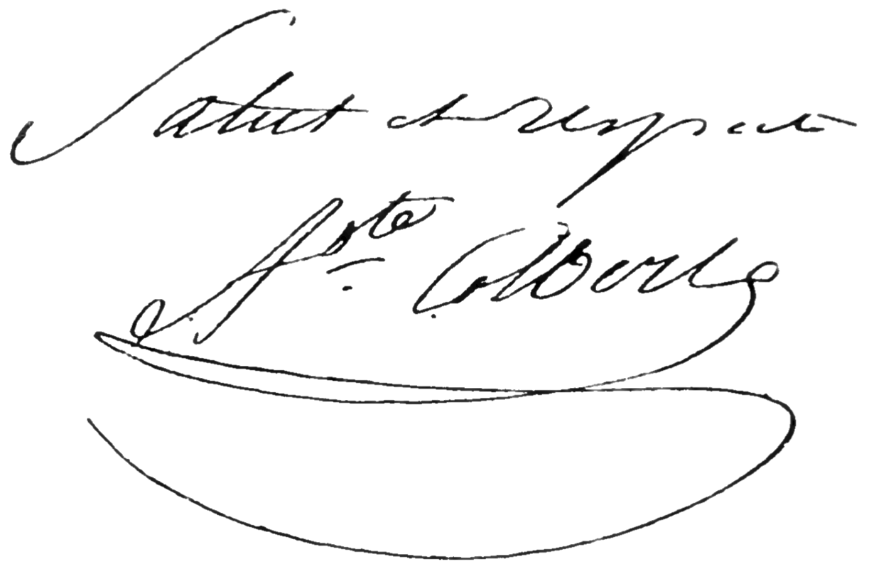 Signature of french general Auguste François-Marie de Colbert-Chabanais (1777-1809)